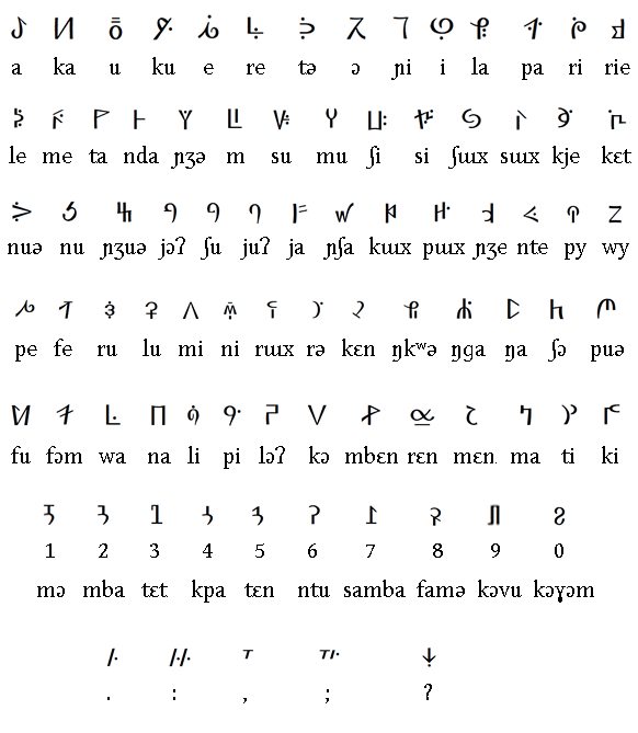 80 basic glyphs, numerals, and most punctuation of the modern Bamum syllabary